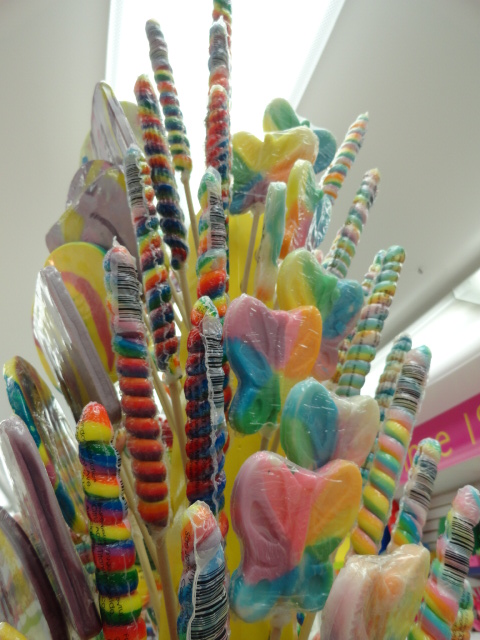 Visit my Dzhingarov Blog for great posts and tips :) This is The Candy Store (Candy Kitchen) in Virginia Beach, Virginia, United States of America.